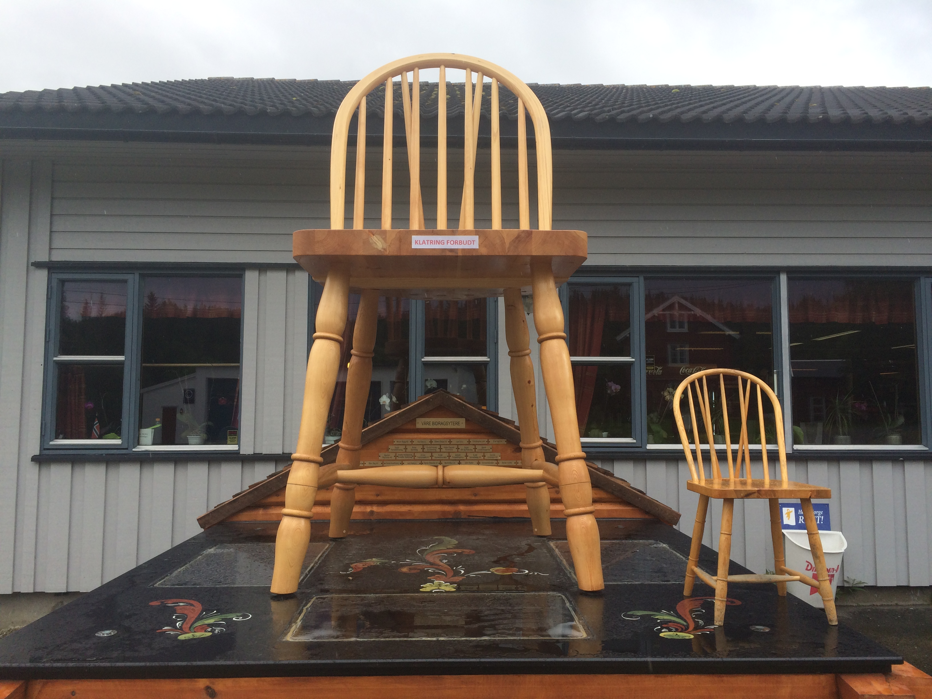 A "monument" of the locally produced chair "Budalsstol" shown together with a normal size chair.